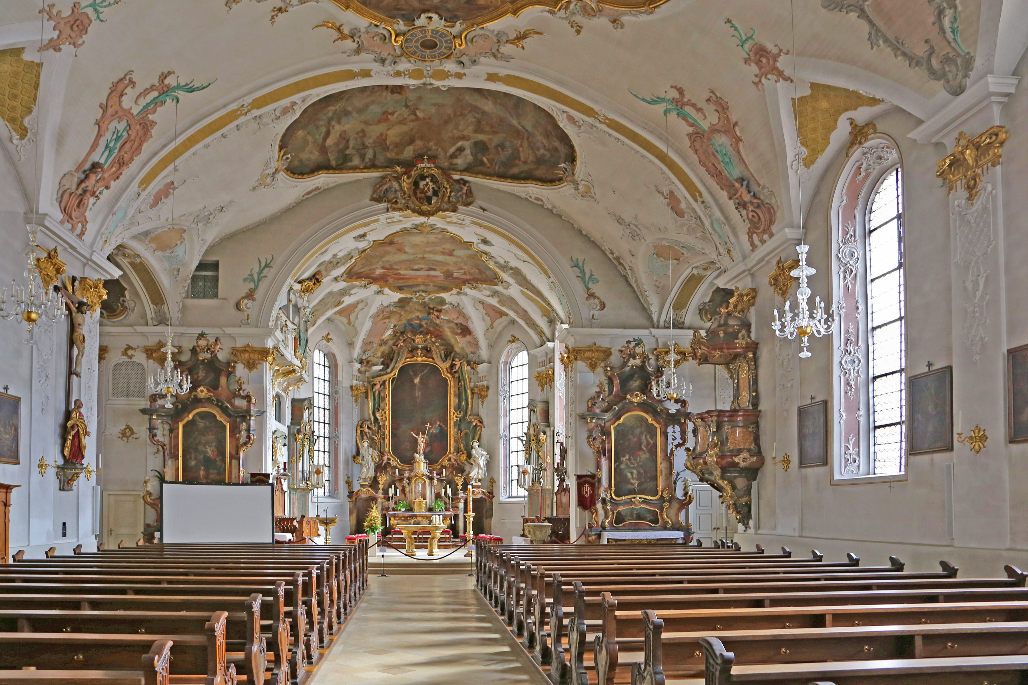 Baroque church St. Johann Evangelist in Sigmaringen, a town on the upper Danube in Baden-Wuerttemberg.